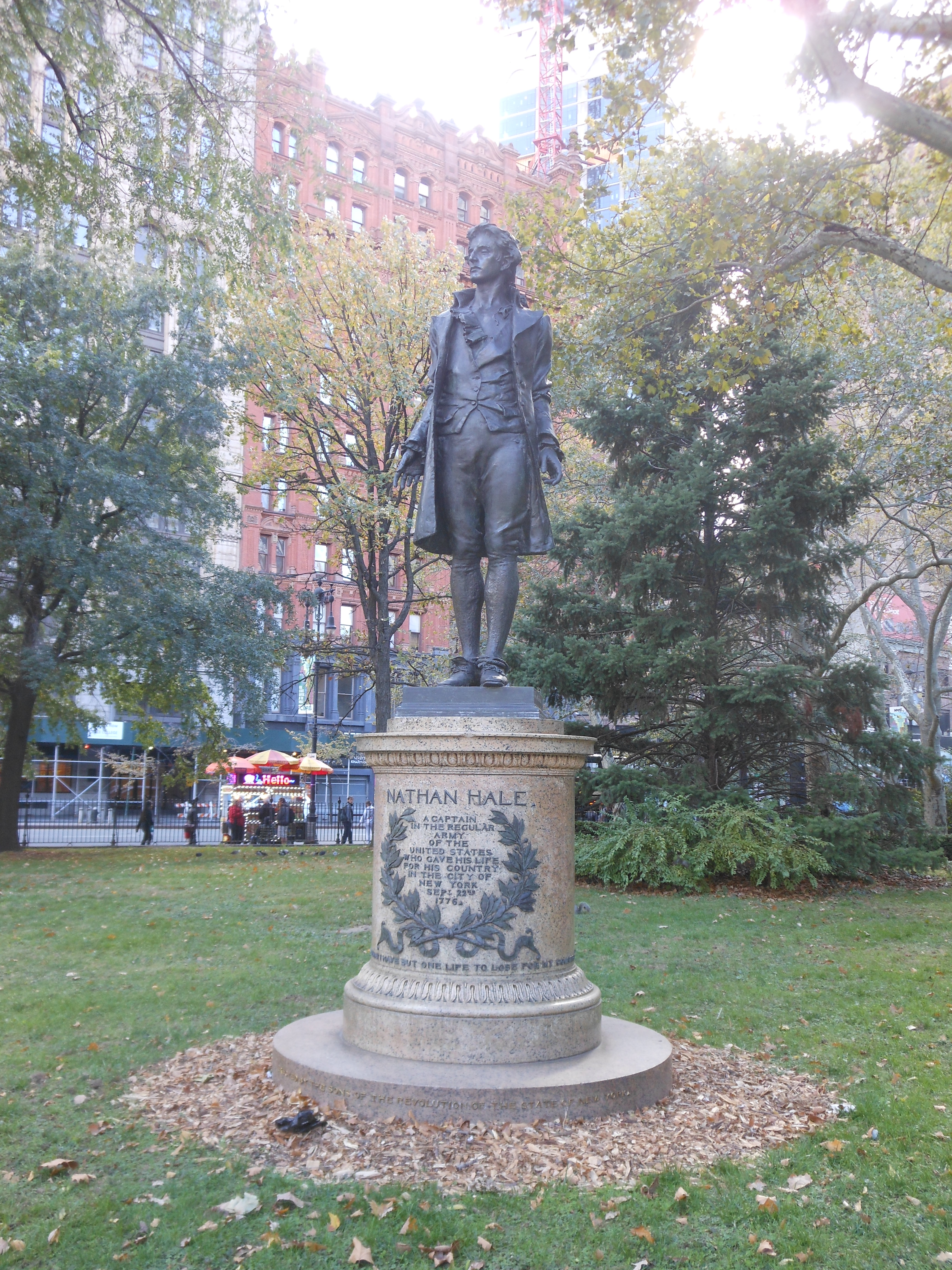 statue of Nathan Hale in park in front of city hall Site: city hall